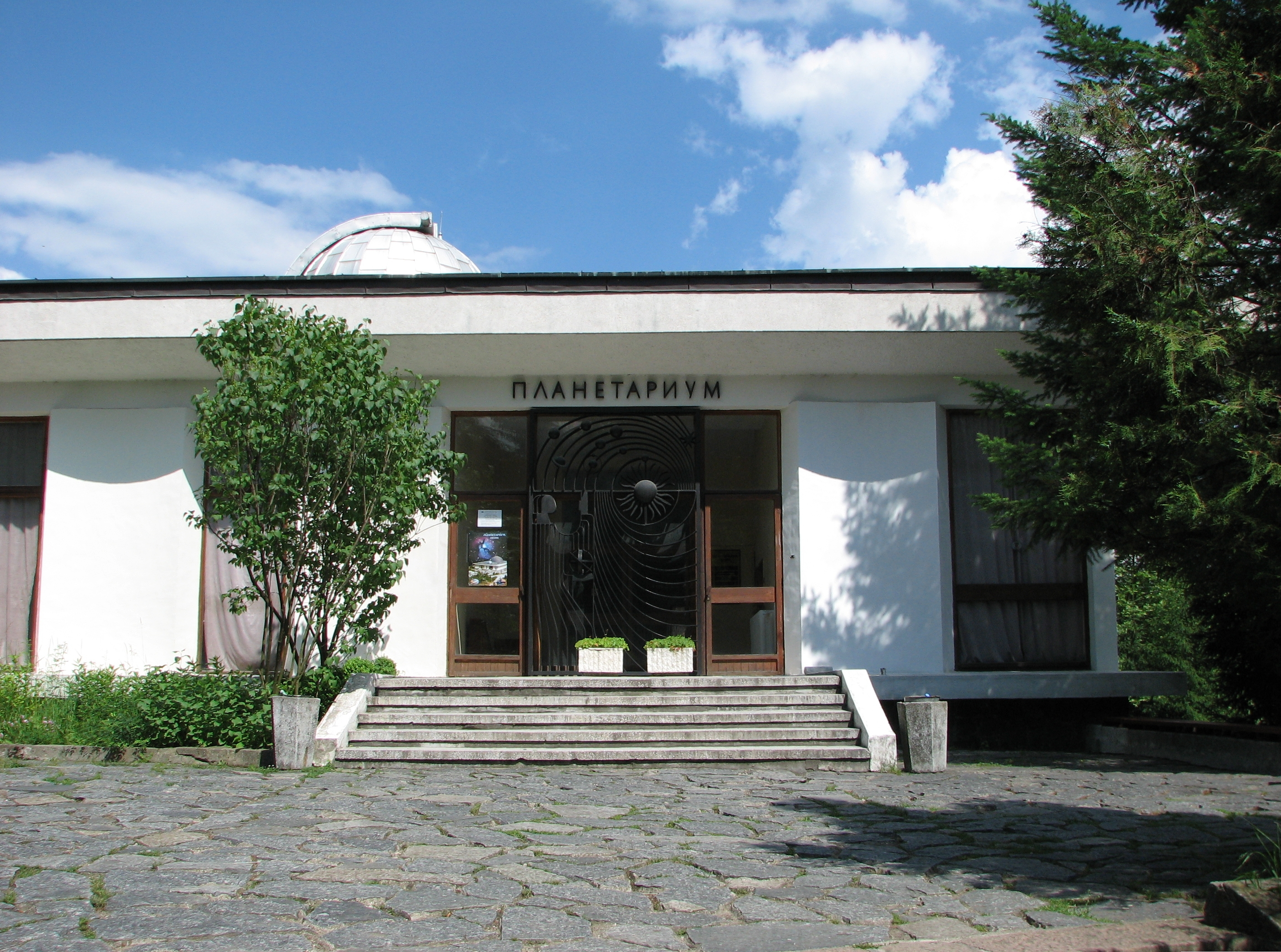 Smolyan Planetarium, Bulgaria